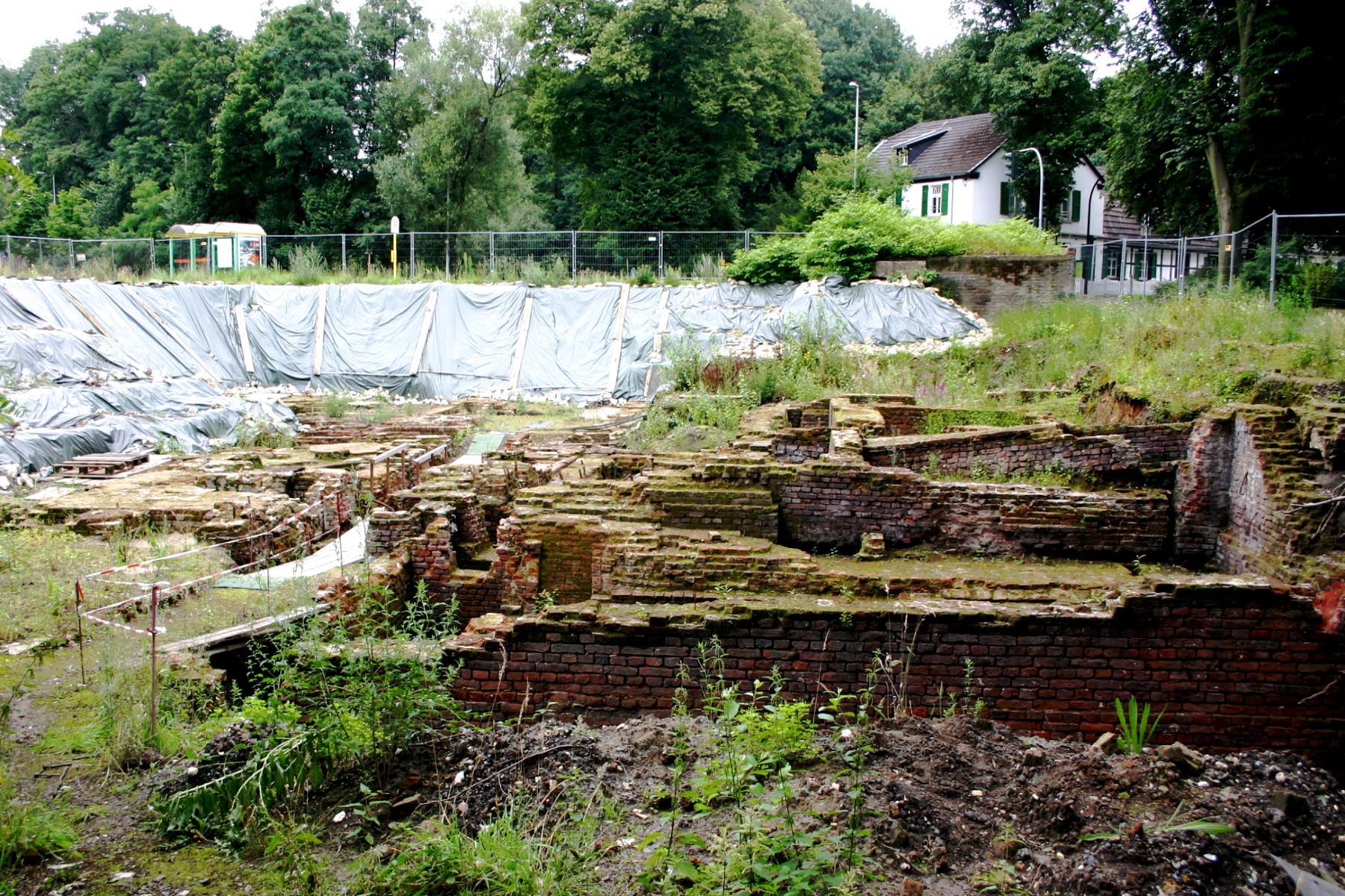 Excavation area on the former site of the St. Antony-Huette in Oberhausen (Germany), the so called „cradle of the Ruhr industry“.